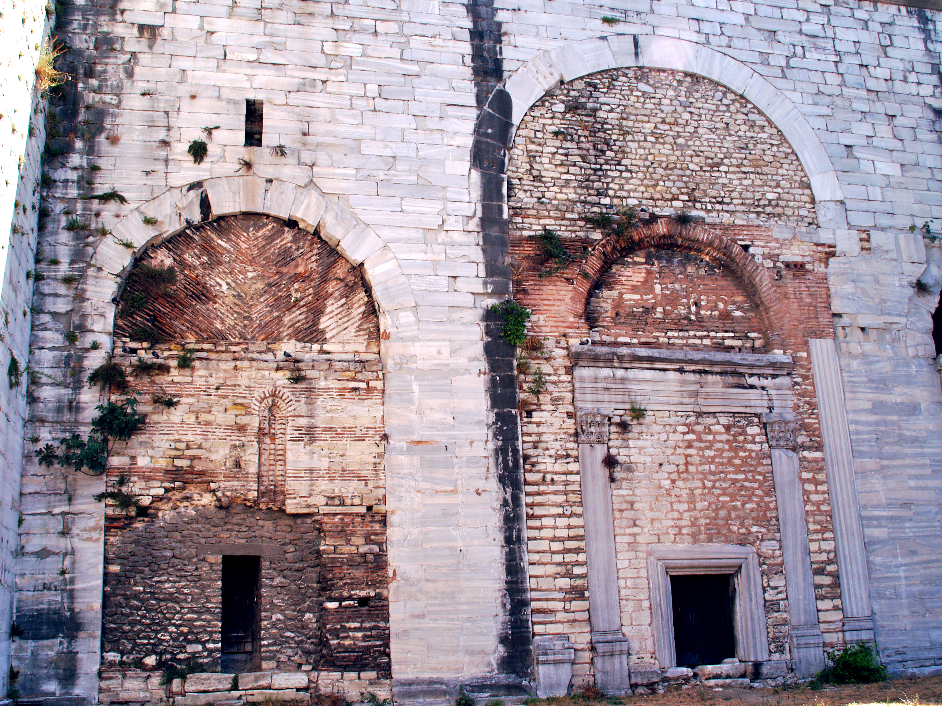 Turkey, Istanbul, The Golden Gate